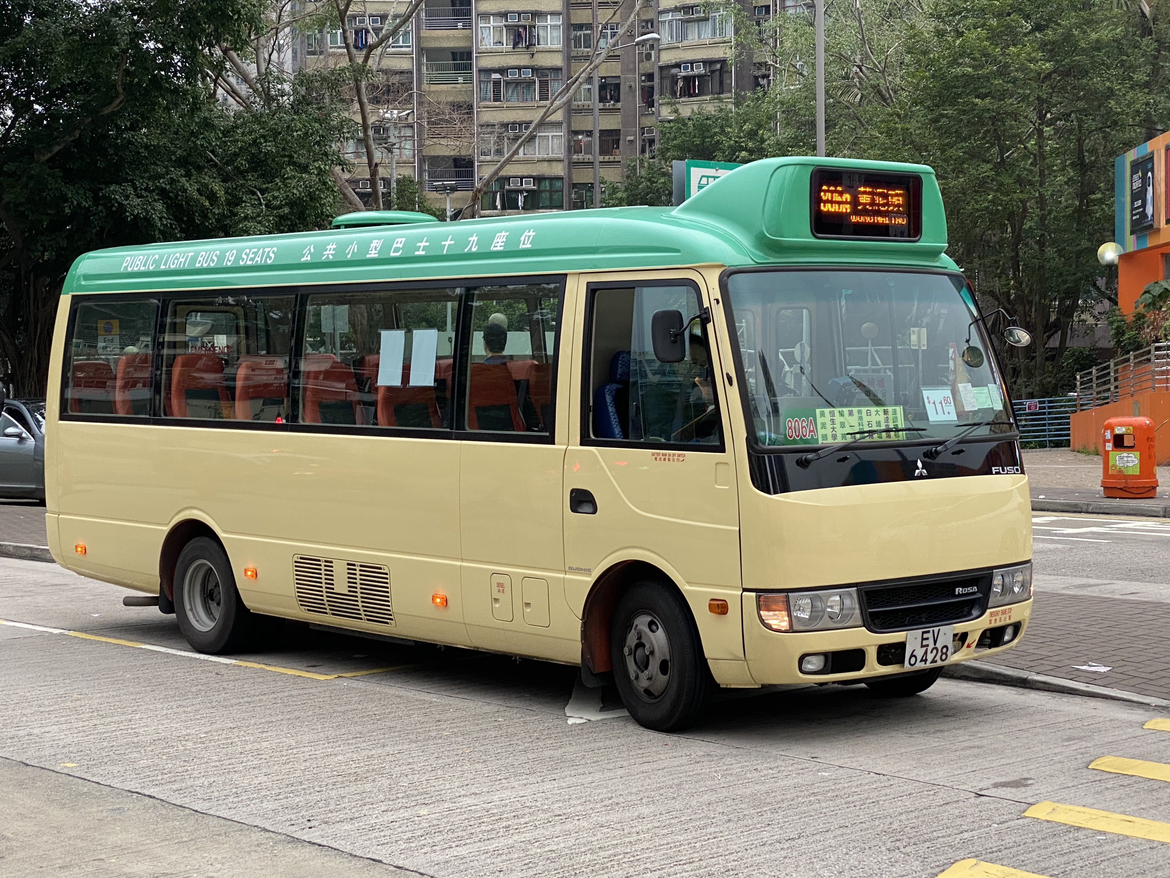 中文（香港）: This photo is taken in Wan Tau Tong.